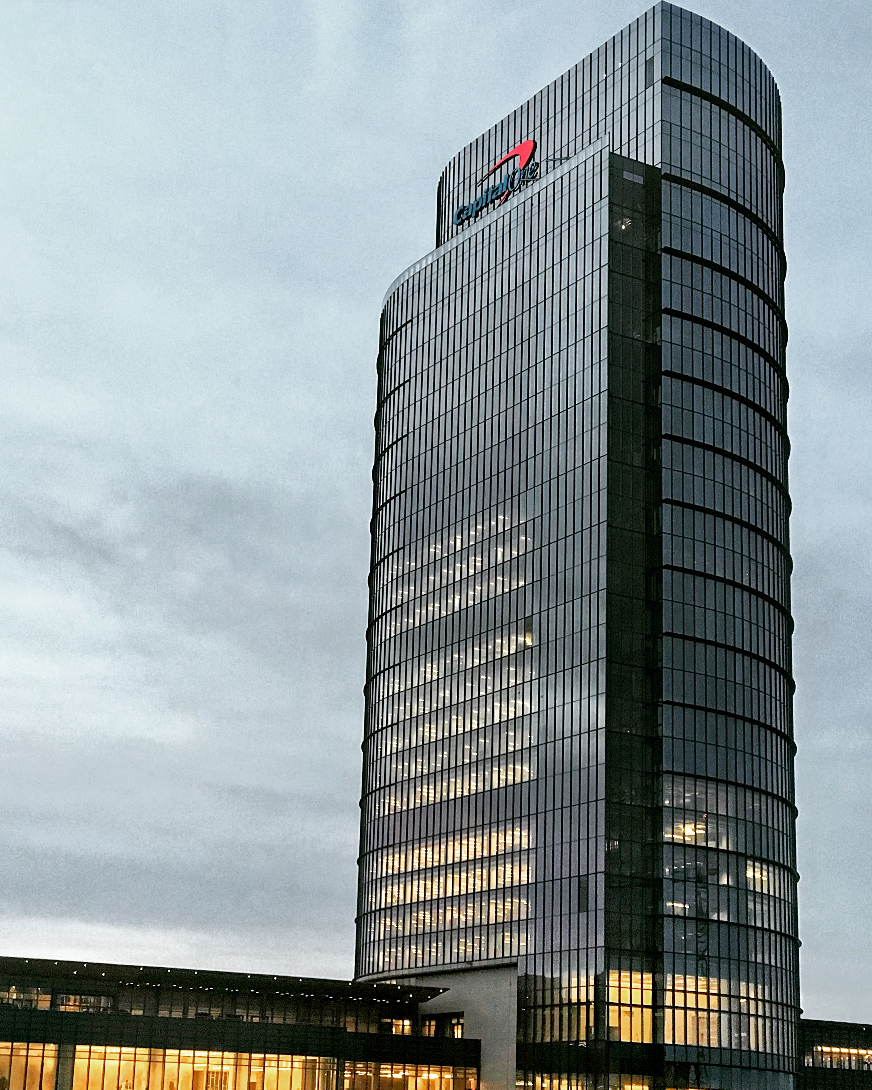 Capital One’s new skyscraper in Tysons; the second-tallest building in the Commonwealth of Virginia.